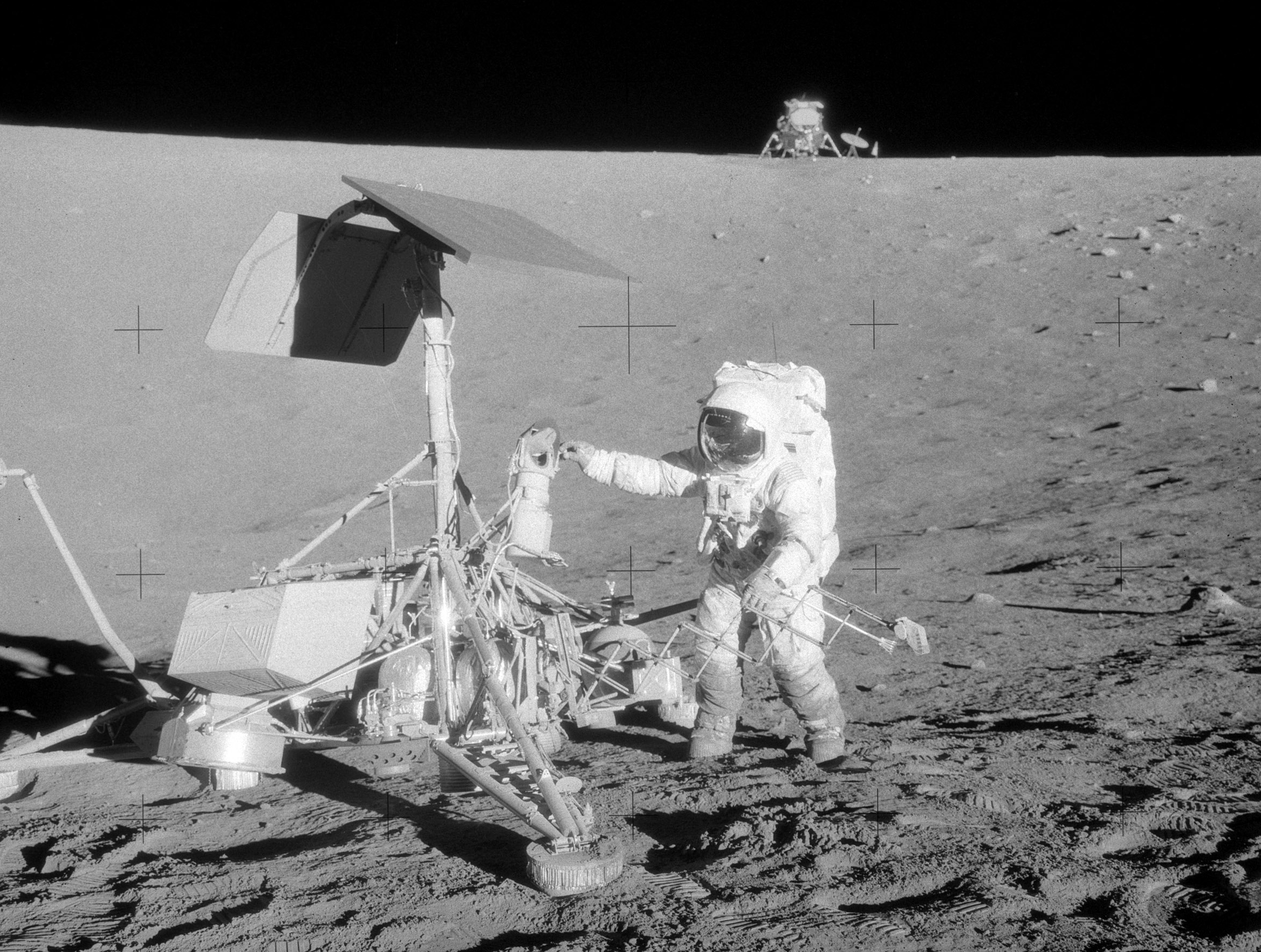 Astronaut Charles Conrad examines Surveyor 3, Apollo 12 in the background